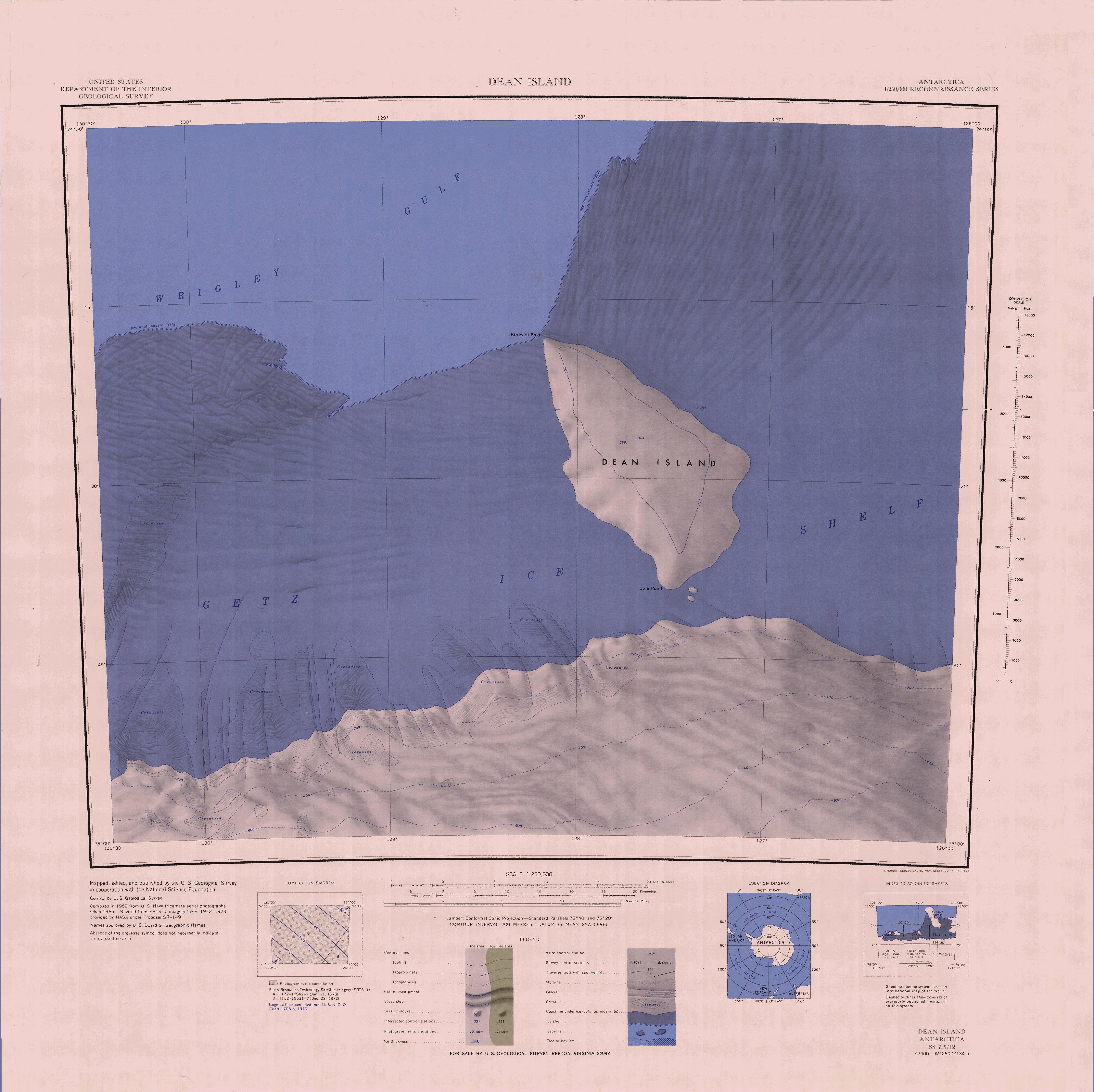 1:250,000-scale topographic reconnaissance map of the Dean Island area from 126°-130°30'W to 74°-75°S in Antarctica, including the central part of the Getz Ice Shelf. Mapped, edited and published by the U.S. Geological Survey in cooperation with the National Science Foundation.